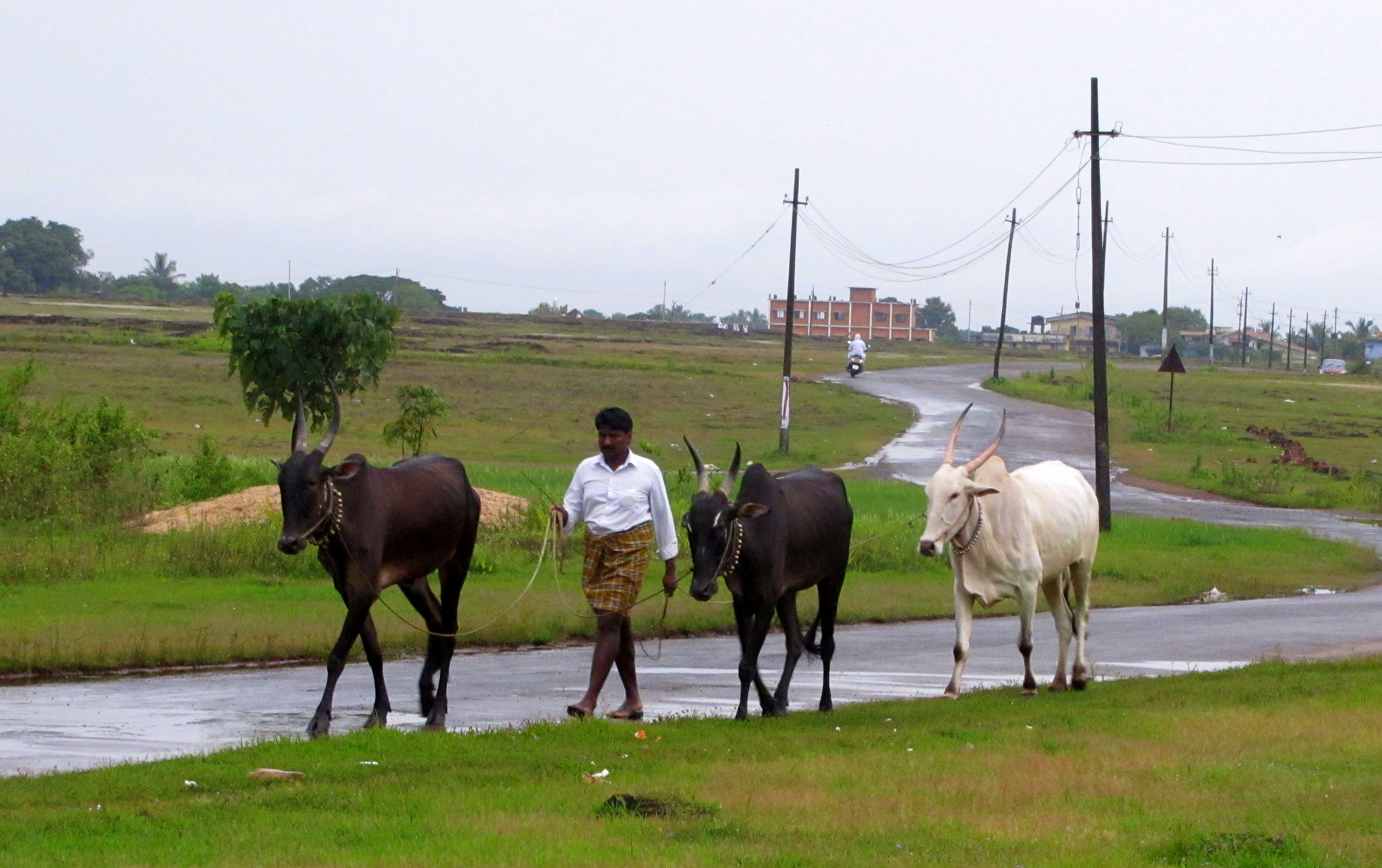 This media file is uploaded with Malayalam loves Wikimedia event - 3.